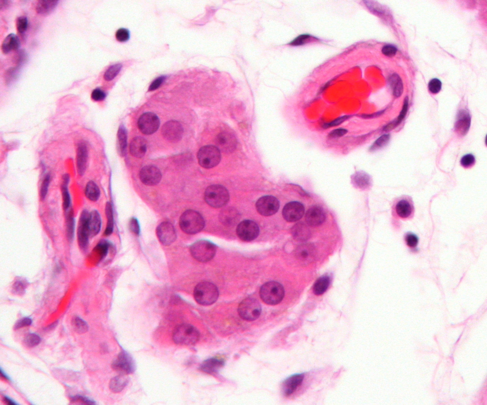 Very high magnification micrograph of Leydig cells. H&E stain. Related images Intermed. mag. High mag. Very high mag. Very high mag.